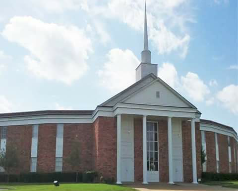 Castleberry Baptist Church, an Independent Baptist Church in Fort Worth, Texas